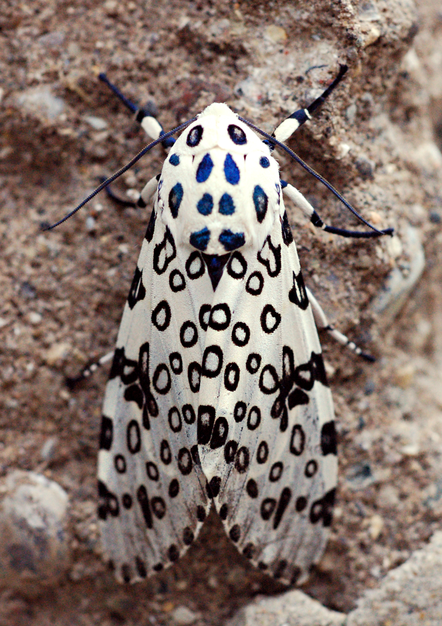 Macro photograph of a giant leopard moth